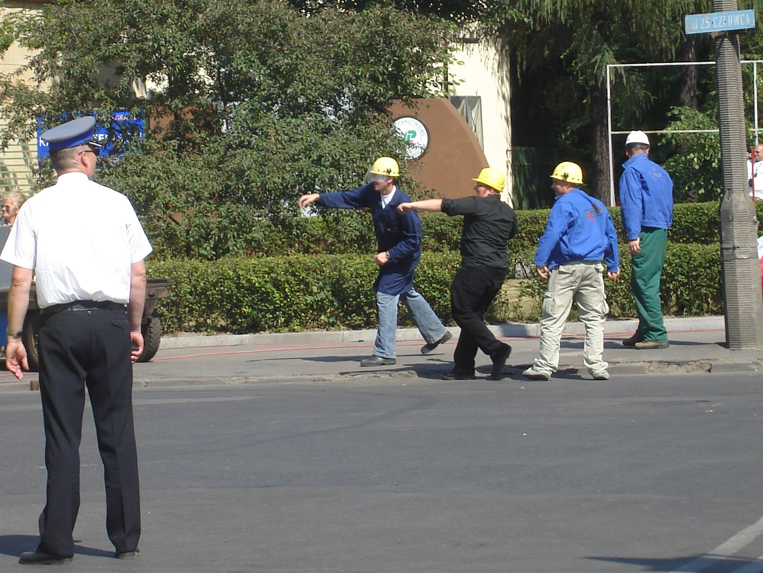 Staging of Radom events 1976